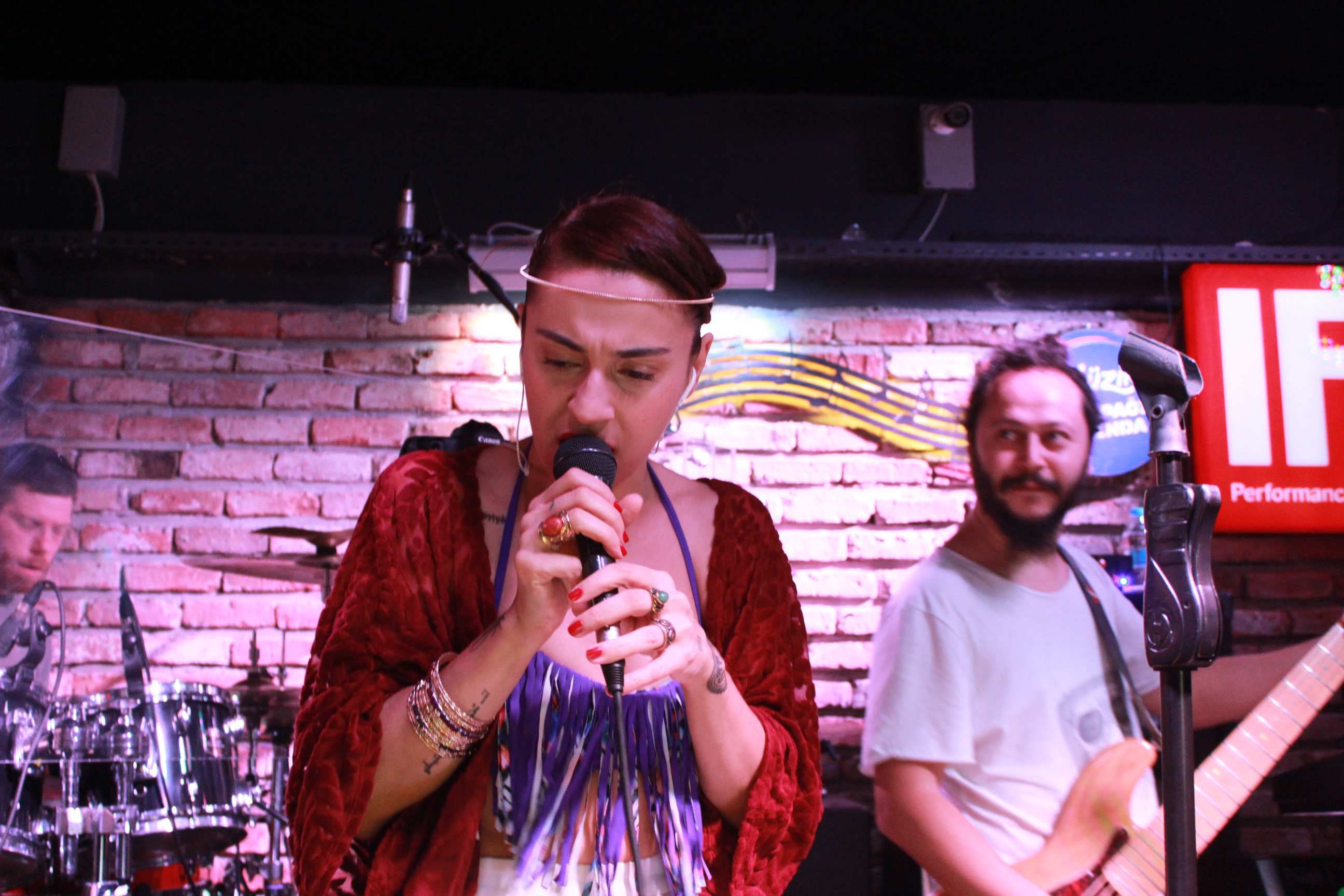 Ekin Cengizkan, Ceylan Ertem and Murat Çopur, performing live under Ertem's name in October 2015 in Ankara. The trio was also the members of Turkish rock band Anima, formed in 2000s with Tuncay Korkmaz.